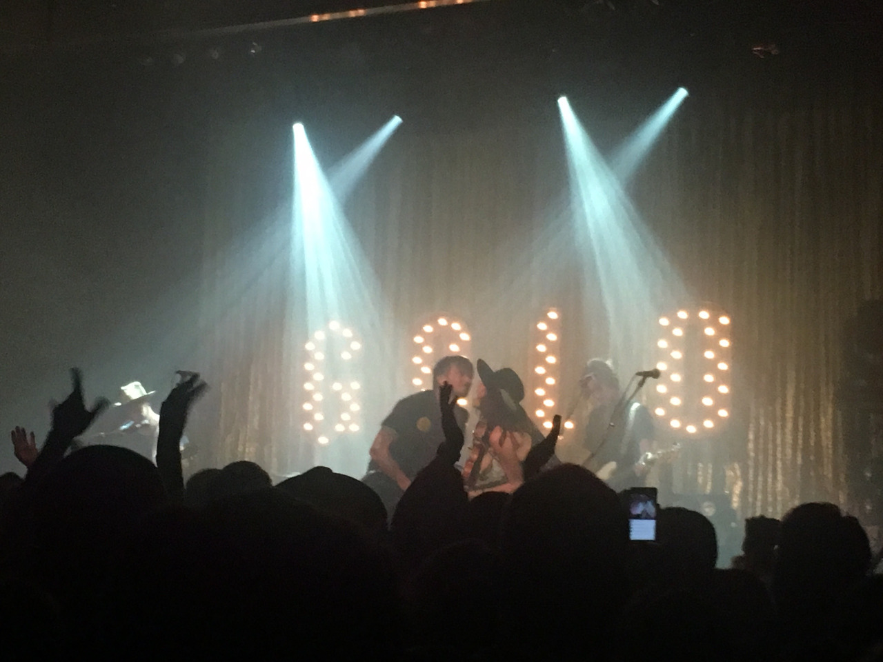 Butch Walker on tour for his album Stay Gold, playing at Minneapolis' Varsity Theater on September 11, 2016